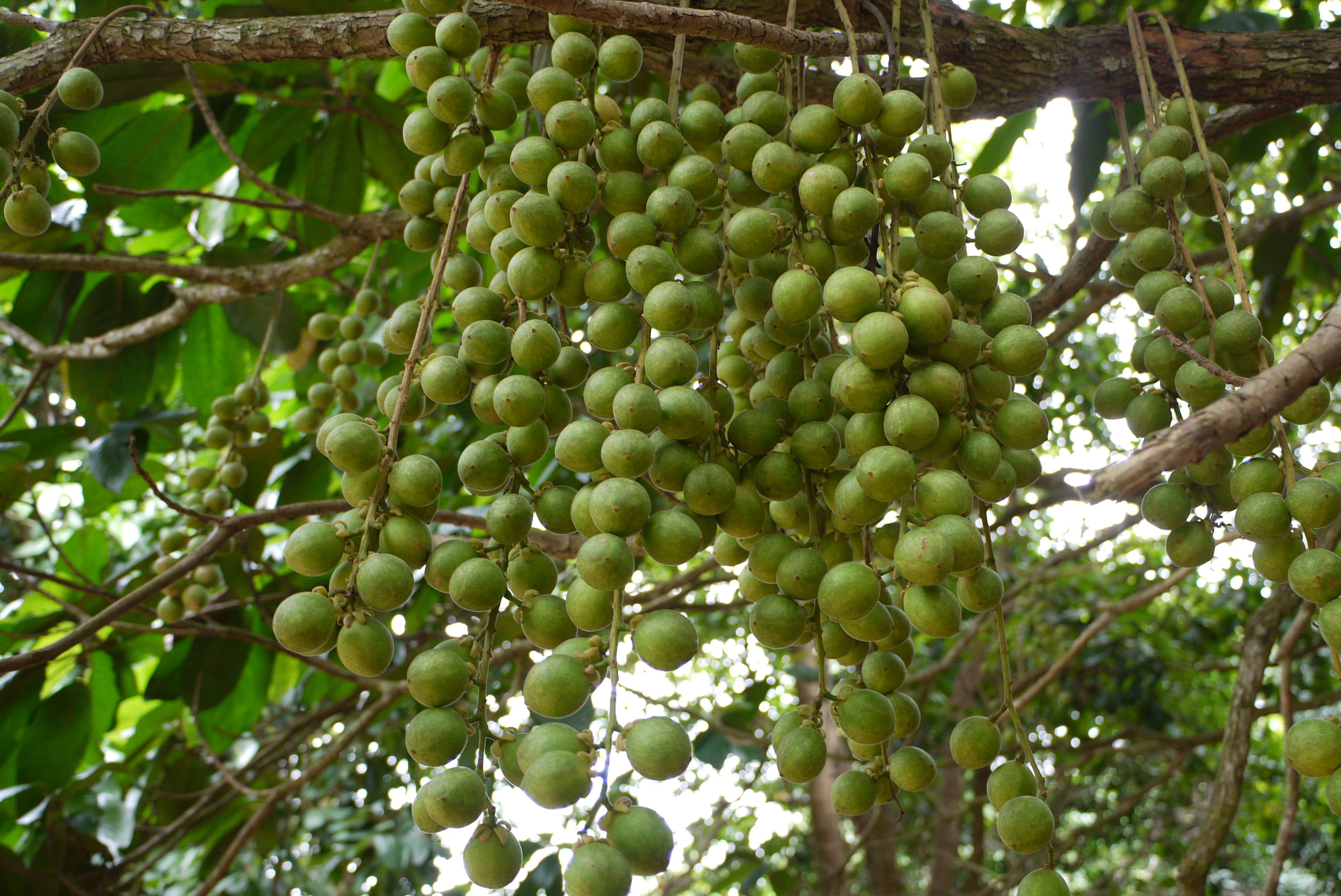 Young fruit of rambai (Baccaurea motleyana) hanging on the tree. Locality: MARDI rare fruit genebank in Serdang, Selangor, Malaysia.